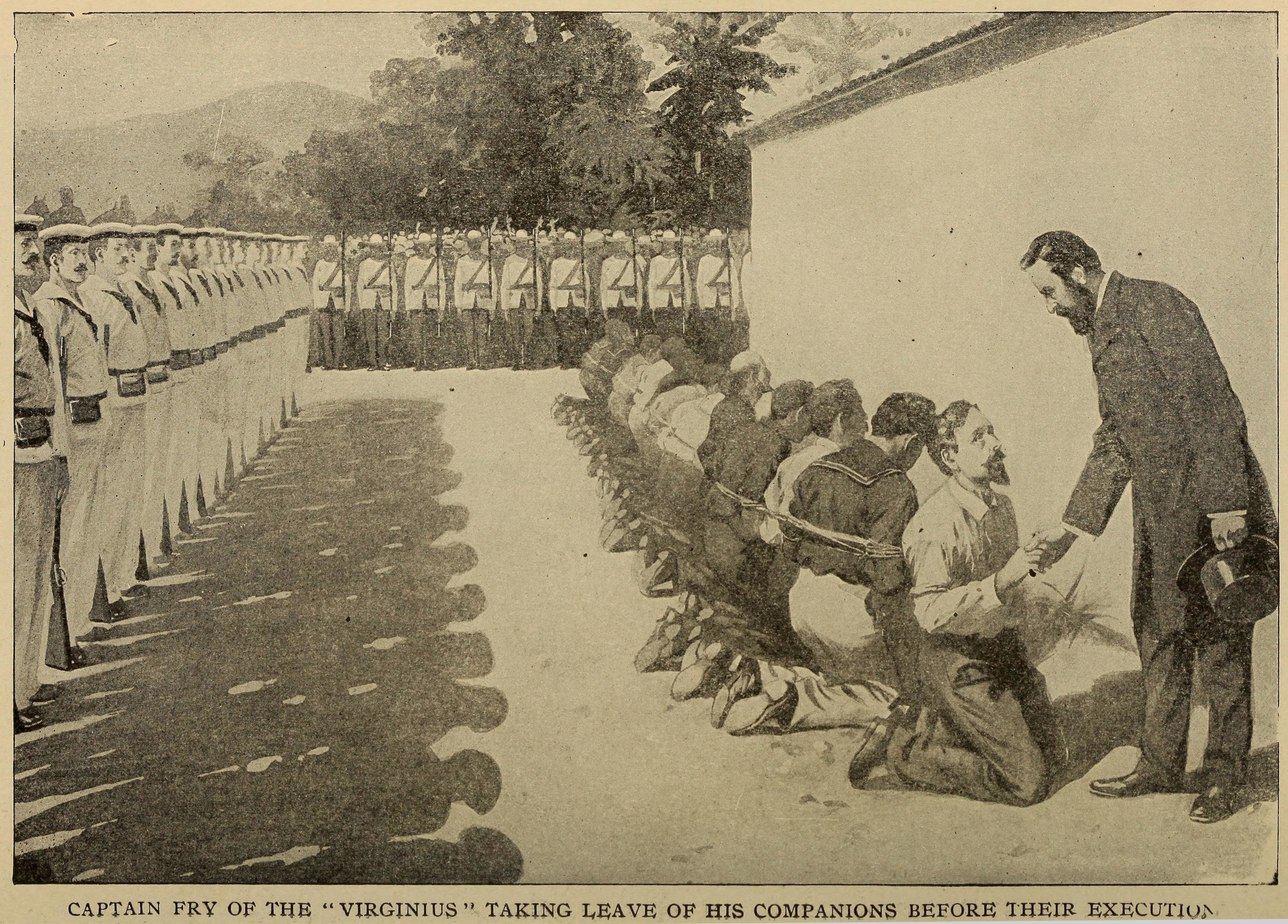 Title: Hero tales of the American soldier and sailor as told by the heroes themselves and their comrades; the unwritten history of American chivalry Year: 1899 (1890s) Authors: Buel, James W. (James William), 1849-1920 Subjects: Spanish-American War, 1898 Publisher: Philadelphia, Pa., Century manufacturing company Text Appearing Before Image: o ^ 2 * 8 55W O pq W 2« Text Appearing After Image: OFF FOR THE WAR.